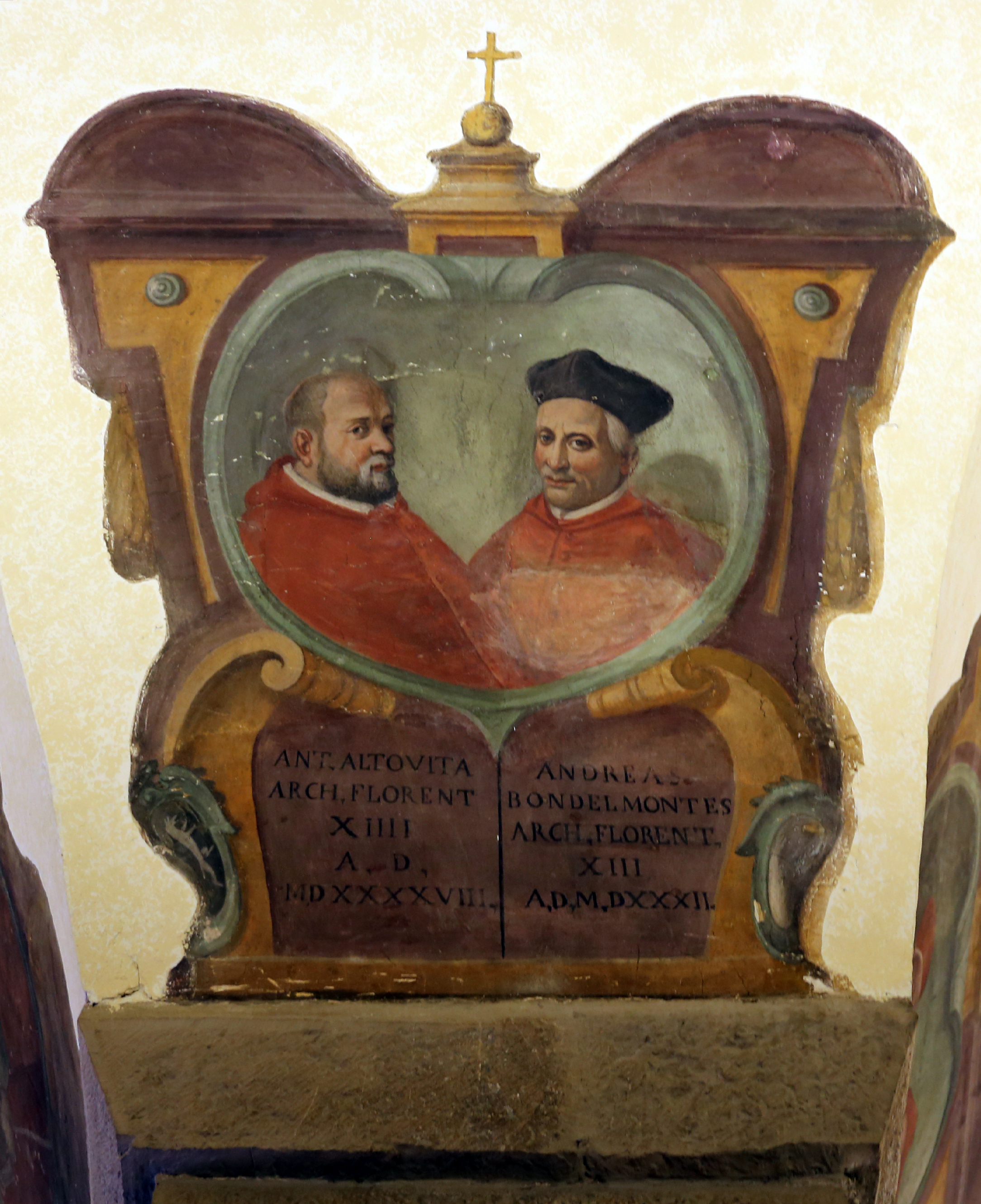 Palazzo Arcivescovile (Florence)